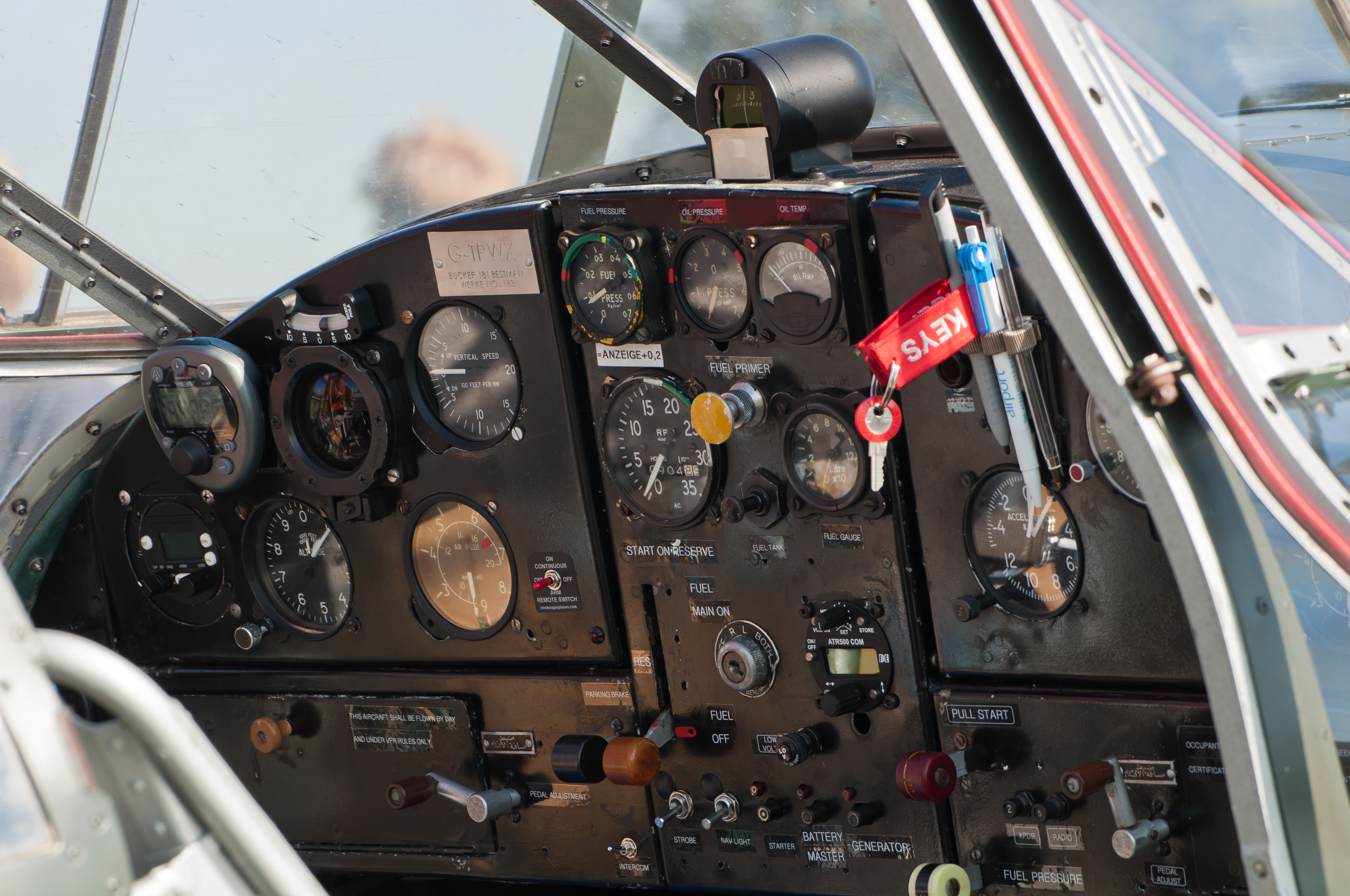 Gomhouria 181 Mk6 (reg. G-TPWX (TP-WX), cn 183, built in 1966).